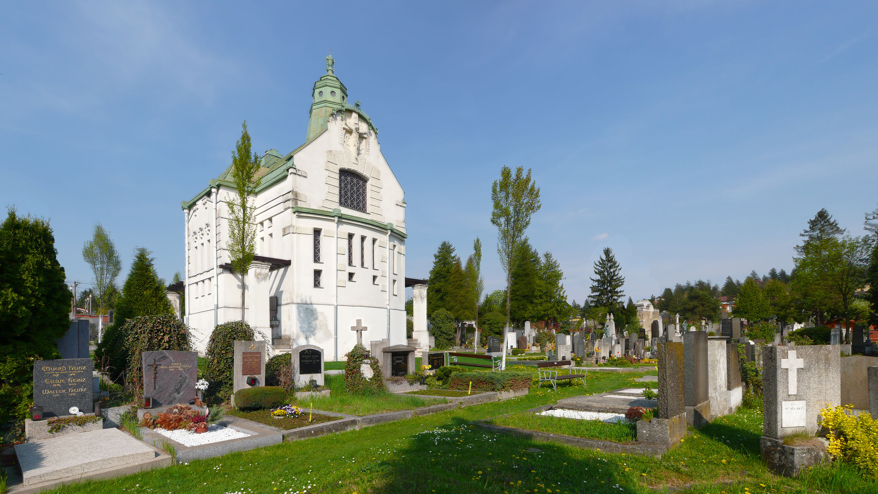 Cemetary Friedhof Hadersdorf-Weidlingau in Vienna Penzing